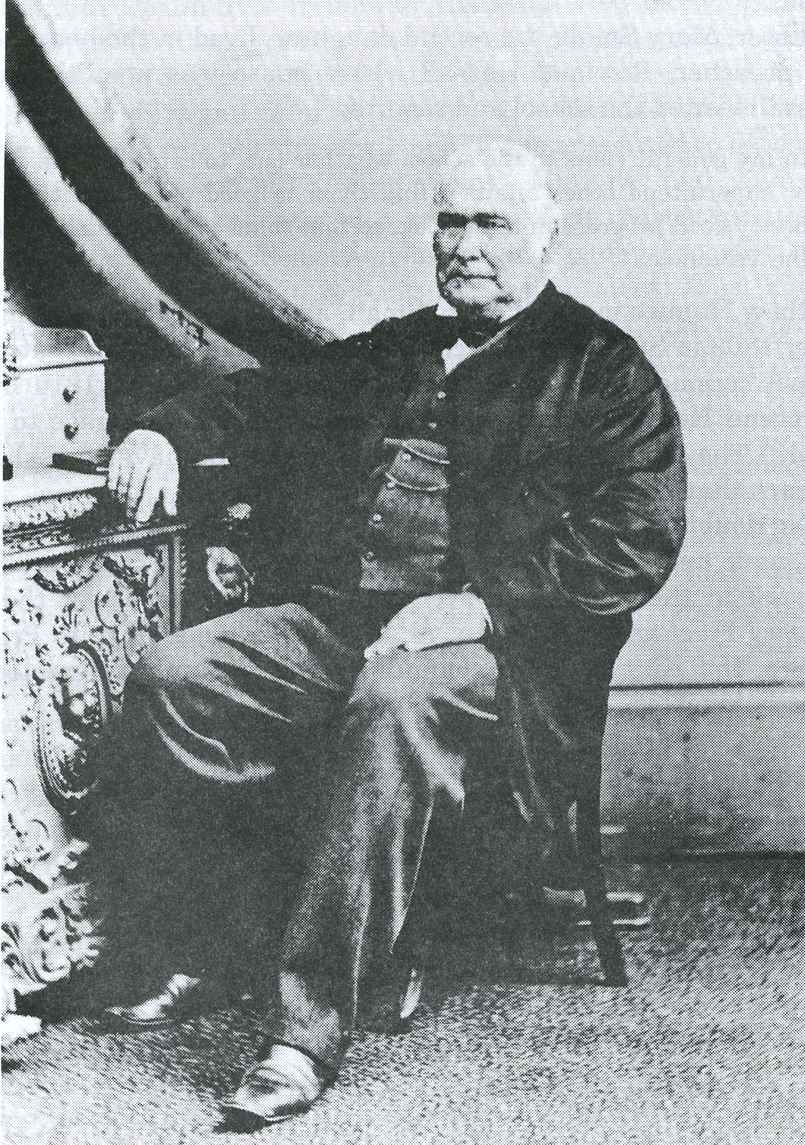 James Devlin (1808-1875) of Willandra,Ryde